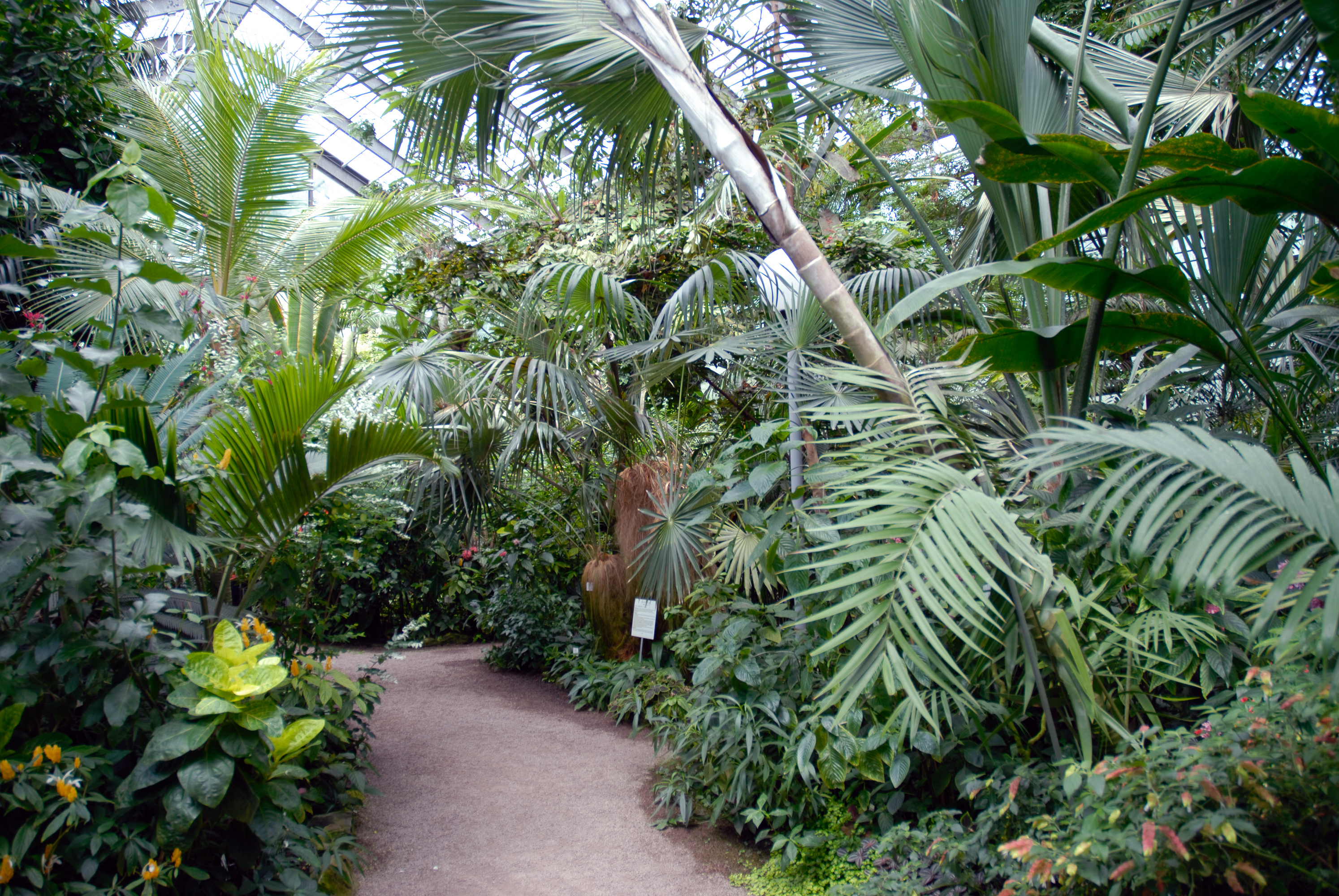 This image shows the botanical garden in Jena.